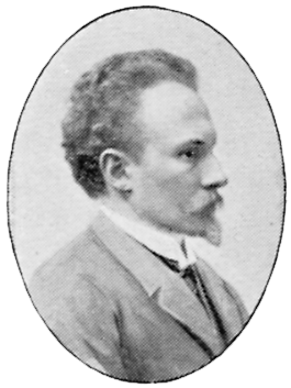 Image scanned from the book "Svenskt Porträttgalleri XX - Arkitekter, Bildhuggare, Målare m.fl. " ("Swedish Portrait Gallery XX - Architects, Sculptors, Painters, ") published 1901